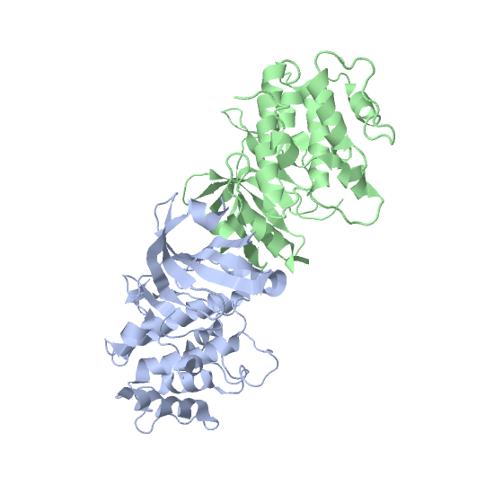 PDB protein.